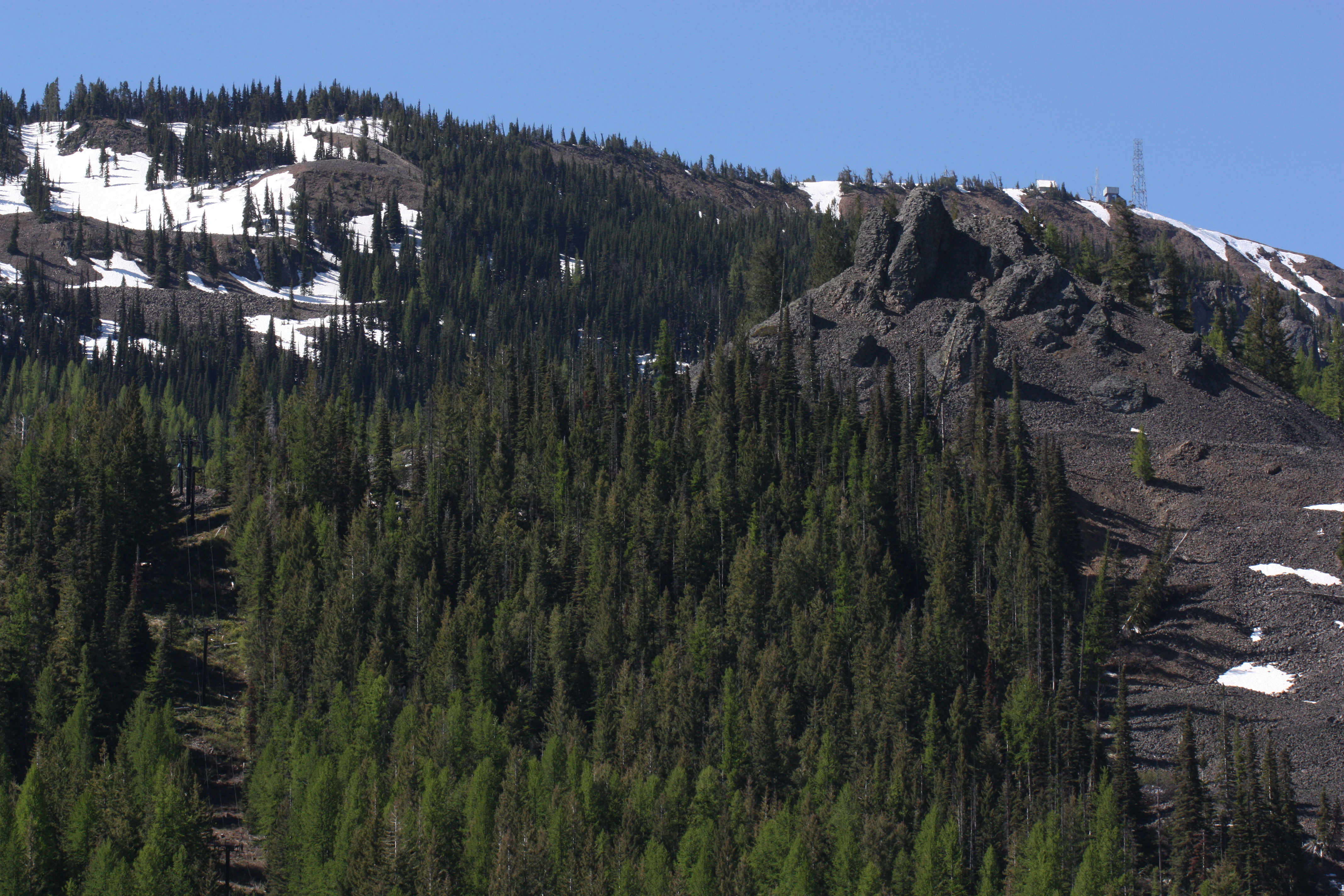 Mission Ridge Ski Area Chair 4 (left); Wenatchee Mountain Radio Facility (right skyline) Viewpoint location: Squilchuck_Trail #1200 to Clara Lake (5040 feet), Colockum State Wildlife Area Viewpoint elevation: 1416 meter (4645 ft) Location source: Garmin GPSmap 60CSx Location Datum: WGS84